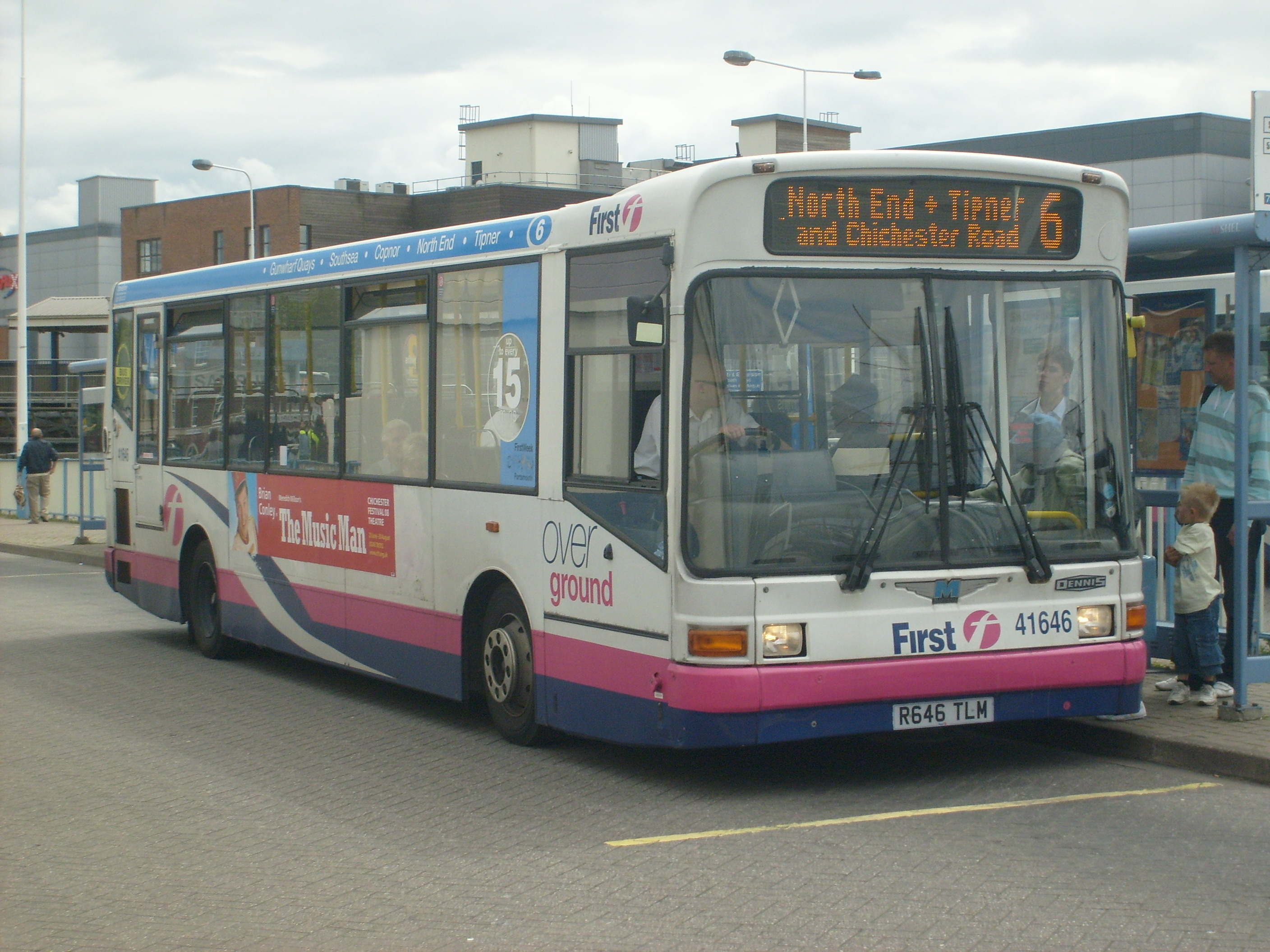 First Hampshire & Dorset's 41646 (R646 TLM), a Dennis Dart SLF/Marshall Capital in Portsmouth on route 6.